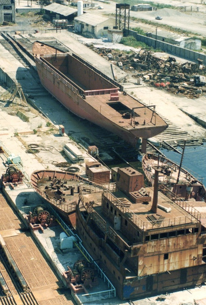 Shipyard in Durres, Albania